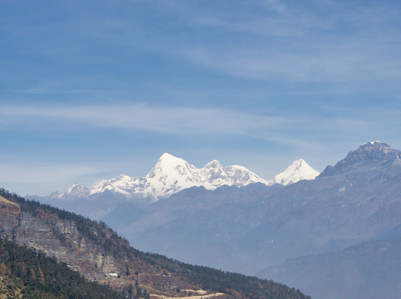 Mount Chomolhari (Jomolhari, 7326 mt) seen from the road joining Paro to Chelela Pass (3988 mt), Bhutan, 2014, november 13